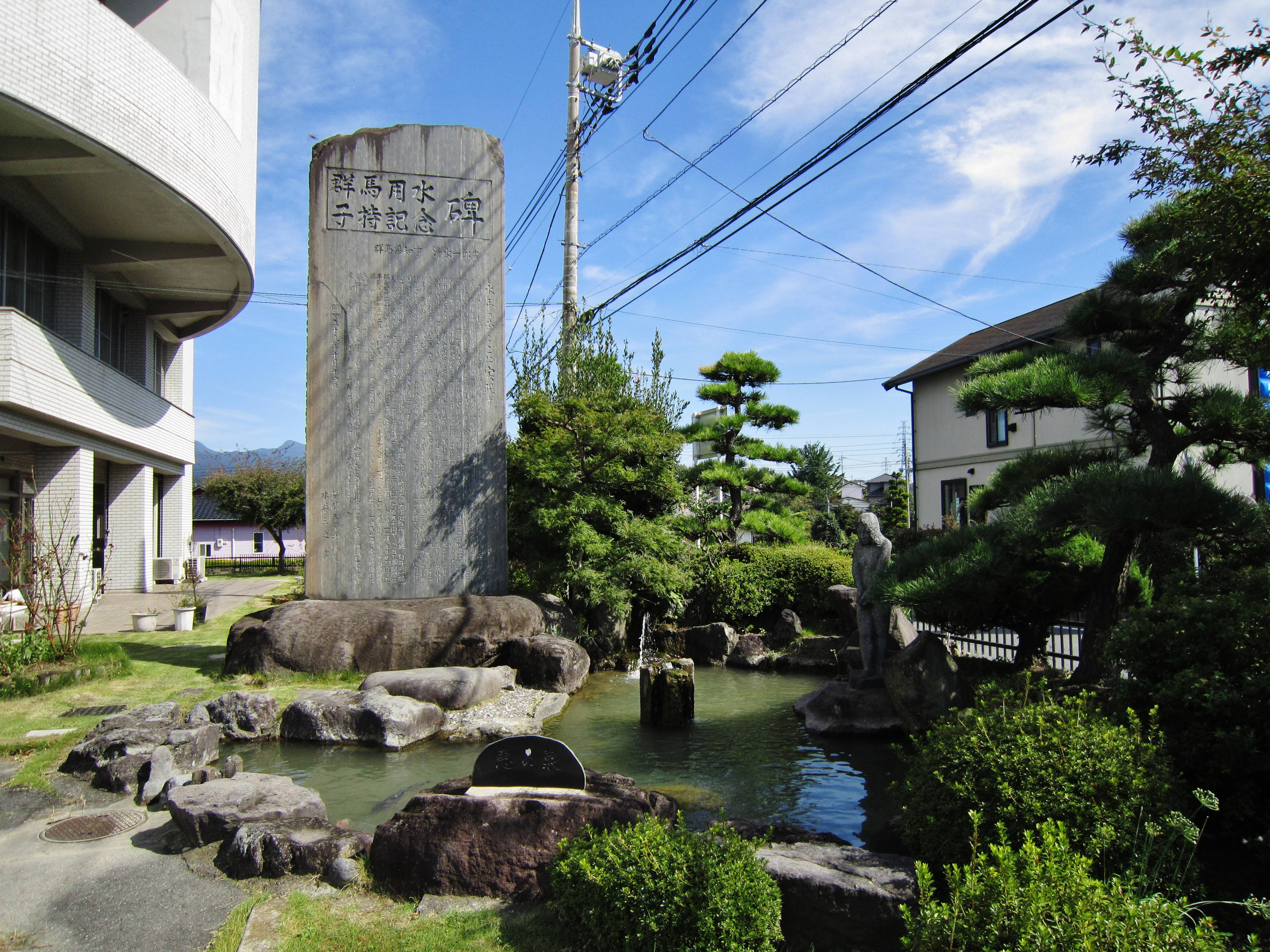 Gunma Cannal monument.